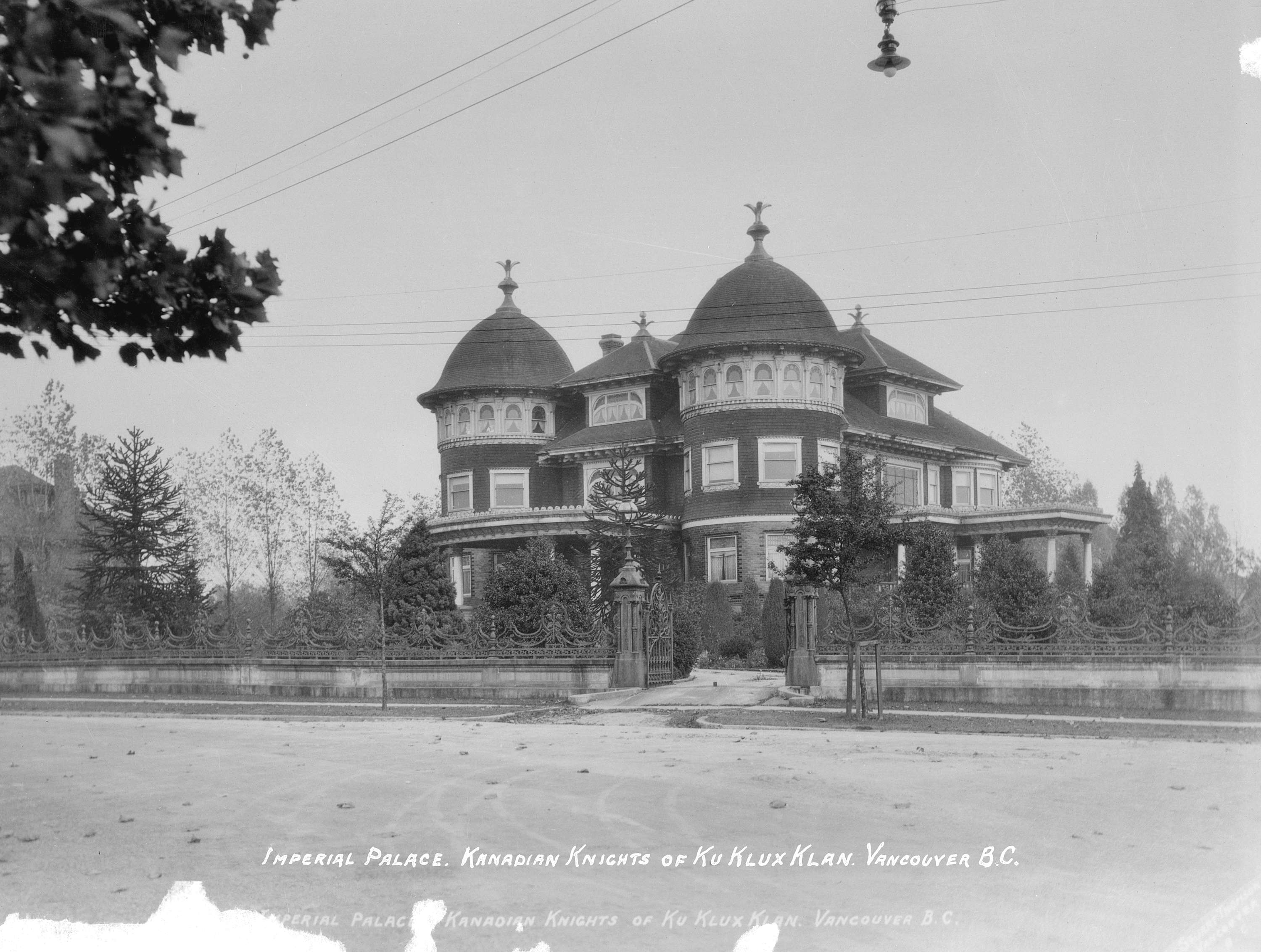 Imperial Palace of the Kanadian Knights of Ku Klux Klan, British Columbia headquarters, in 1925.